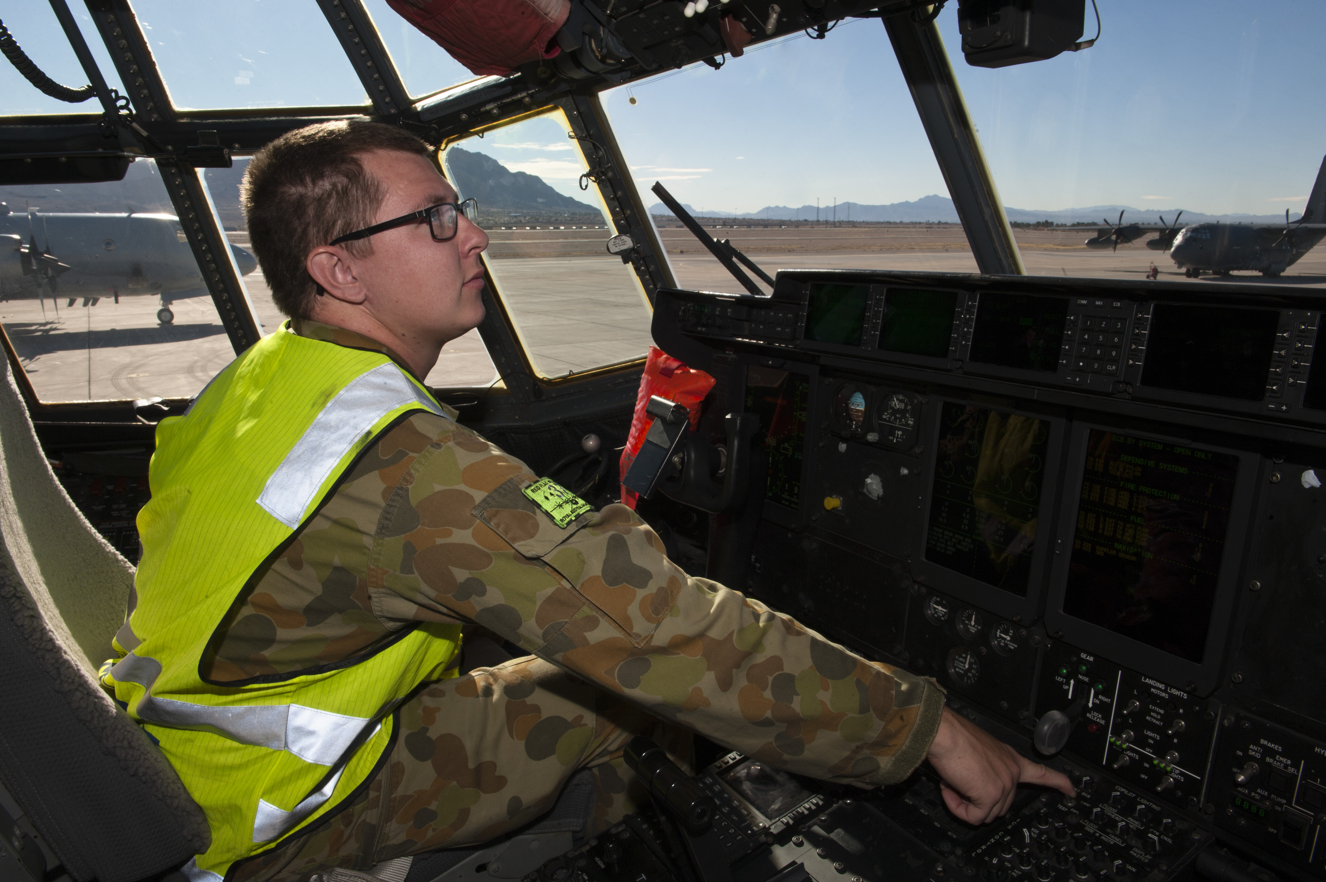 A Royal Australian air force aircraft maintainer prepares a C-130J Super Hercules from 37 Squadron, Richmond, Australia, for a training exercise during Red Flag 15-1 at Nellis Air Force Base, Nev.